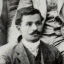 IMARO member Stoyan Mishev